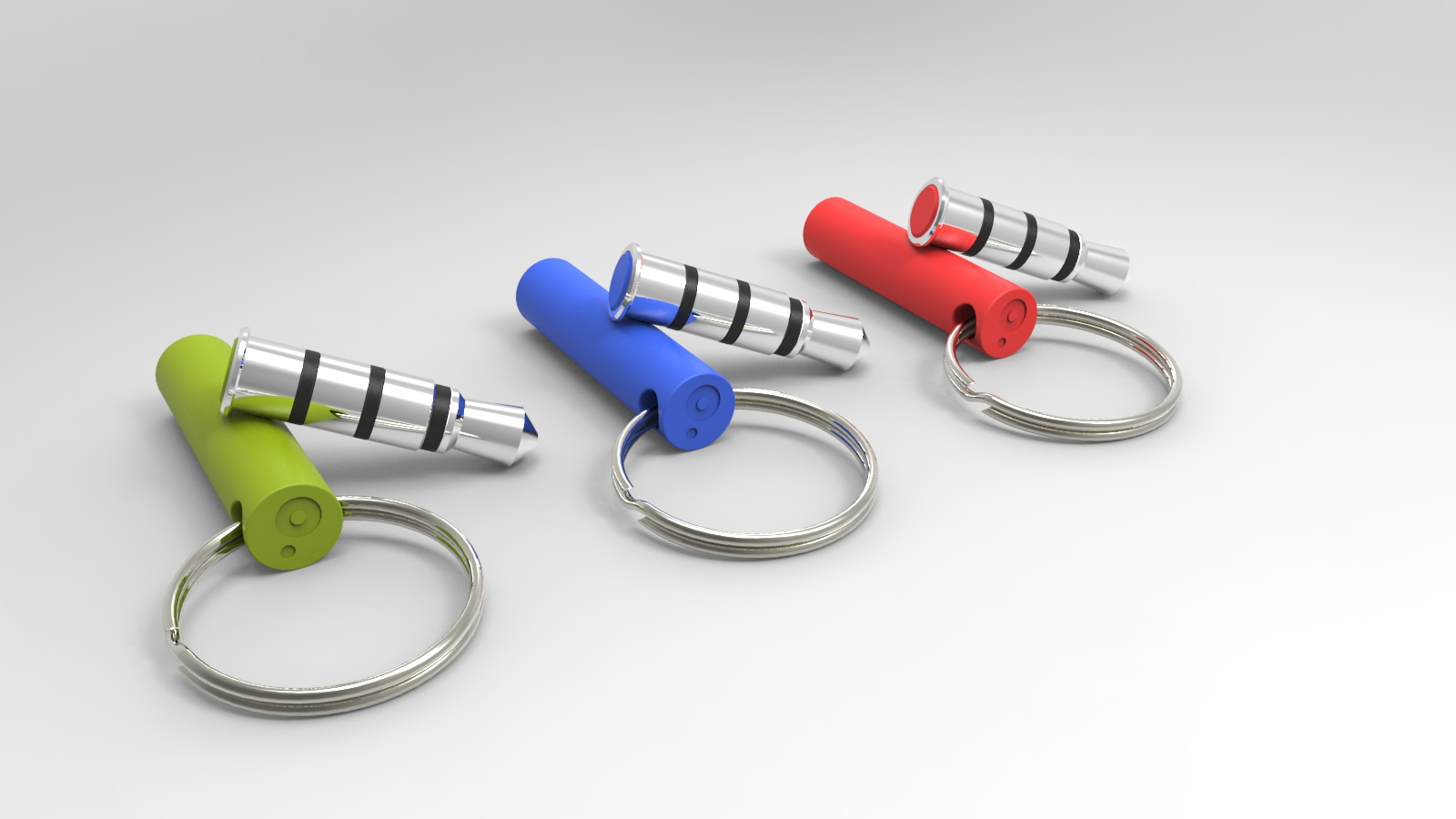 This is a picture of three Pressy Buttons.